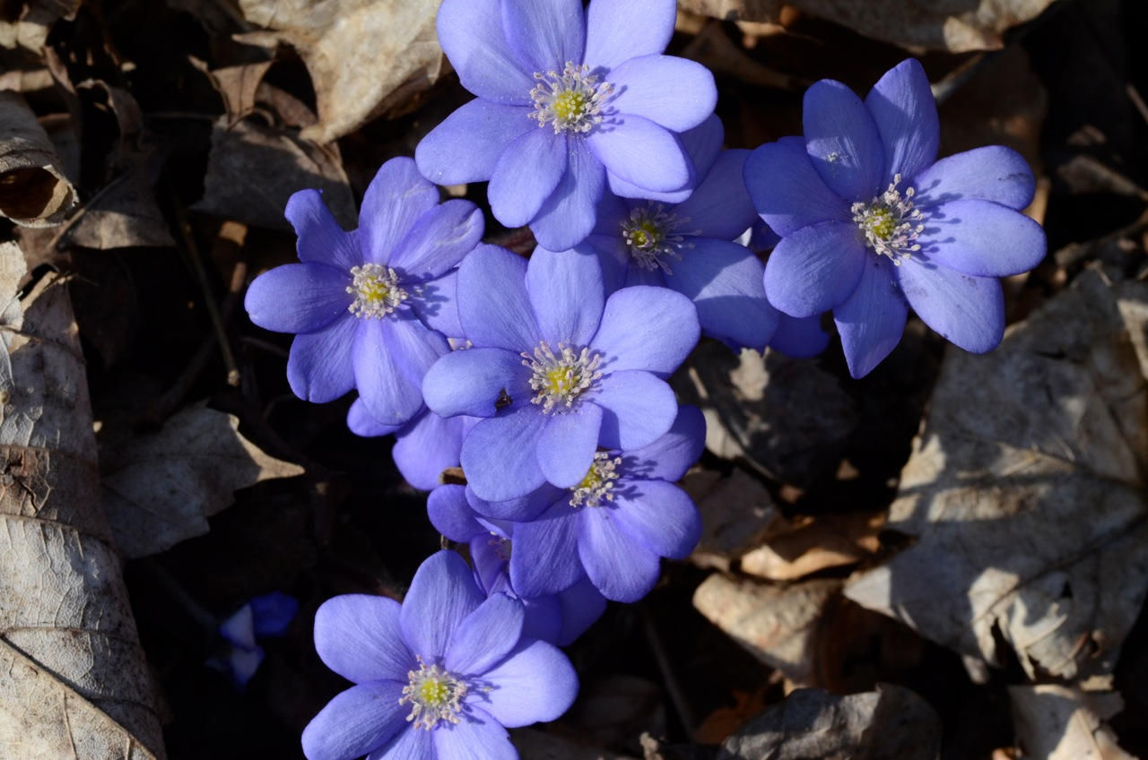 Anemone hepatica